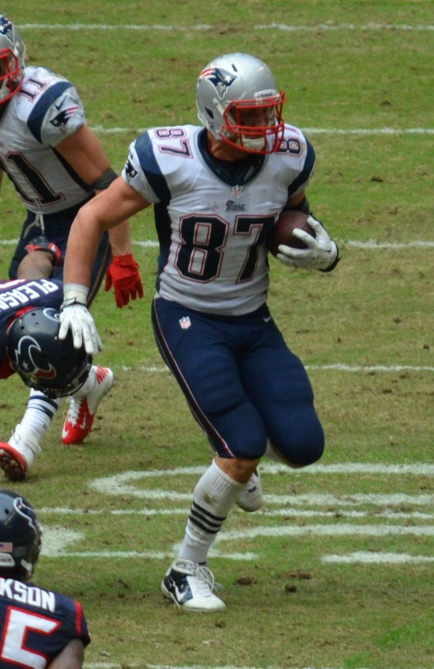 Rob Gronkowski against the Houston Texans on 12/1/2013.